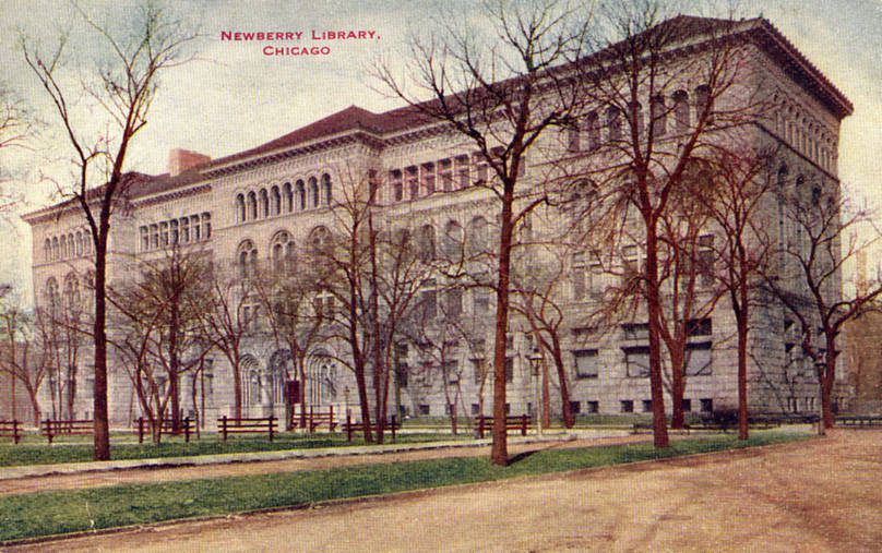 Newberry Library, Chicago